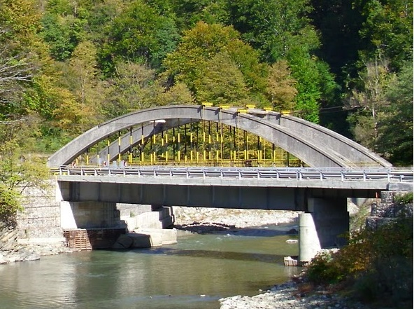 Lainici Bridge on the Jiu gorge.